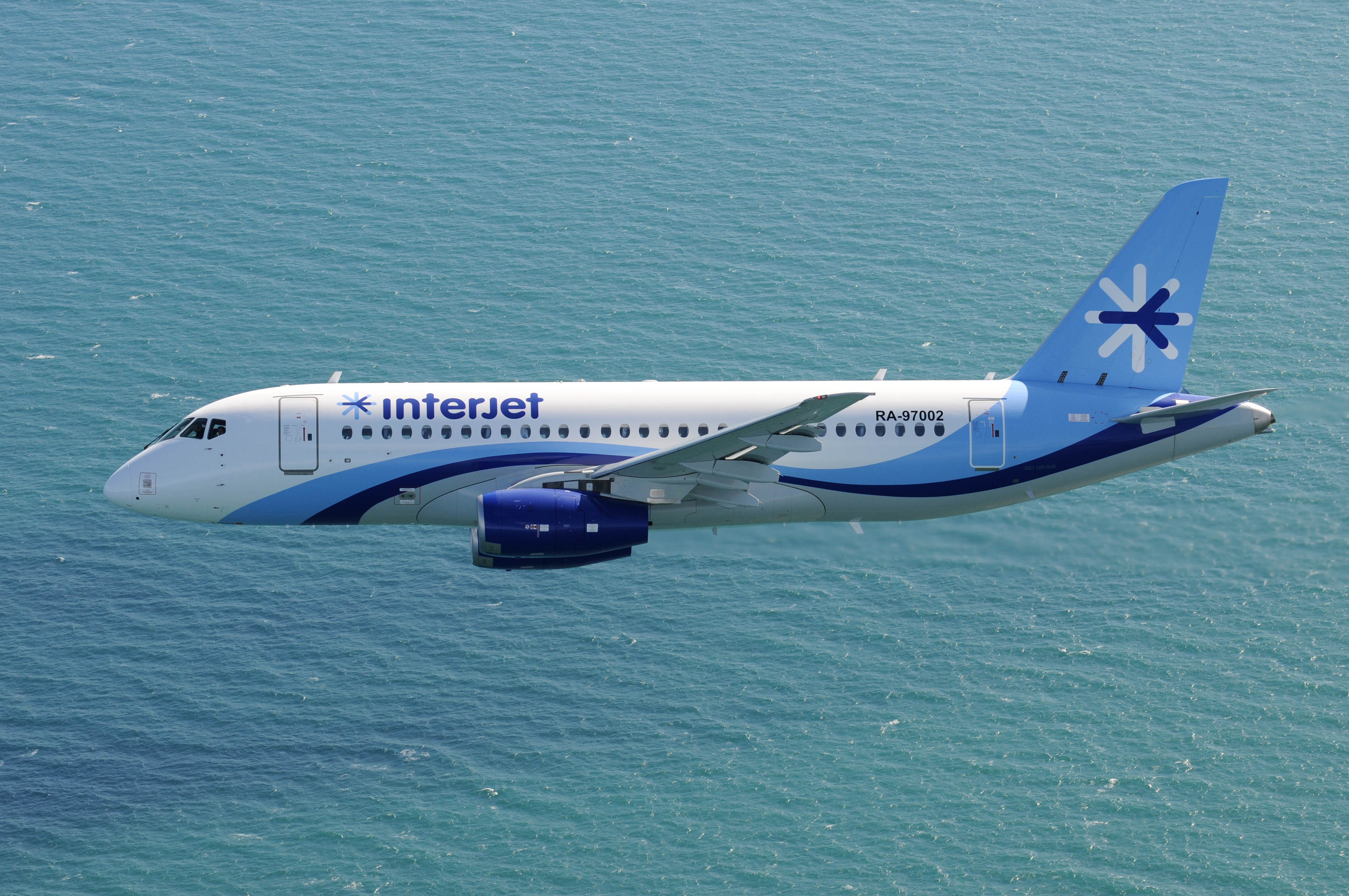 A SSJ100 photographed in flight during a test flight prior to its delivery to Interjet